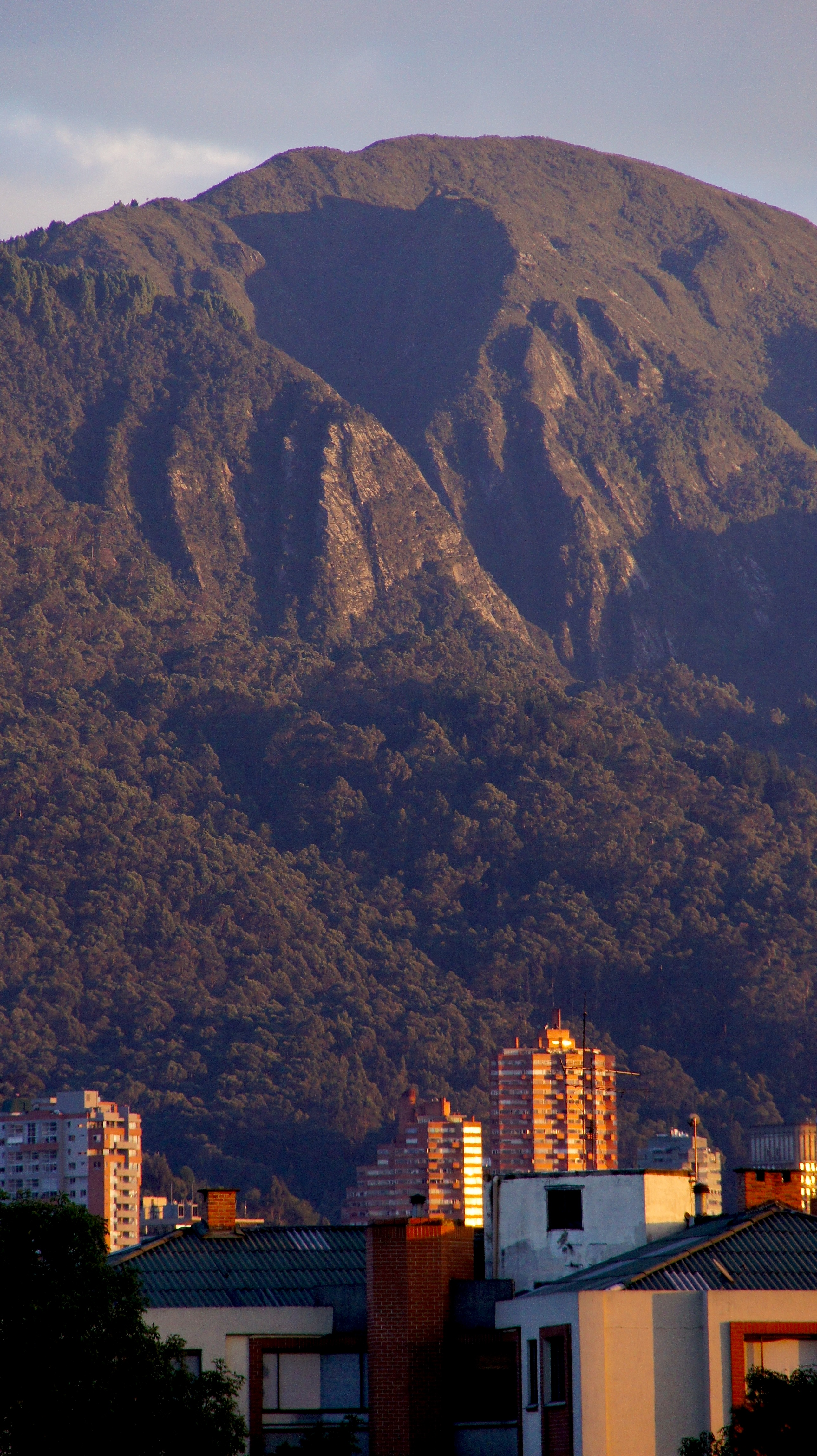 Mountains in Bogota city.